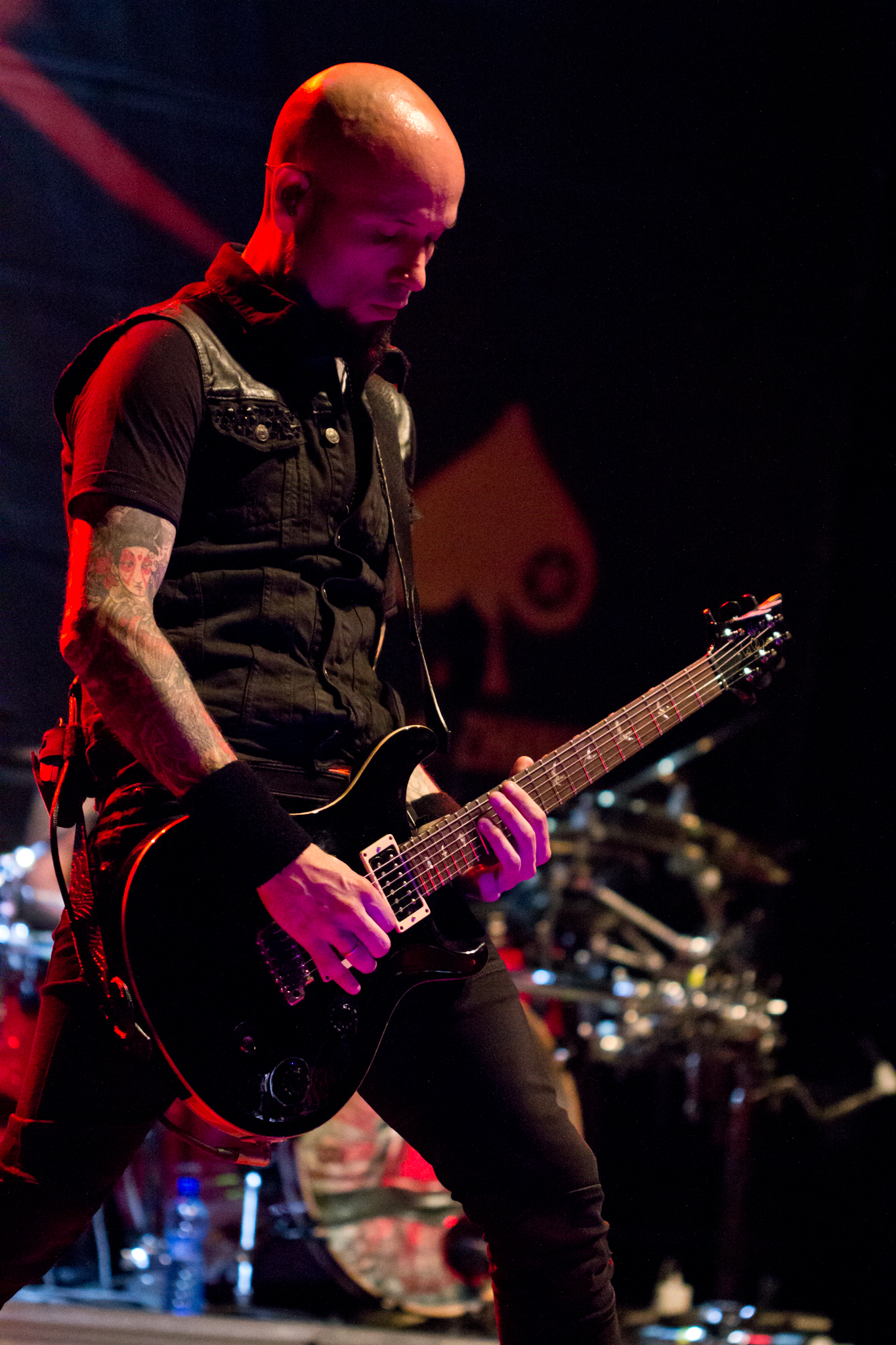 Spanish metal band Sôber at Asaco Metal Fest 2013, Parla, Spain.